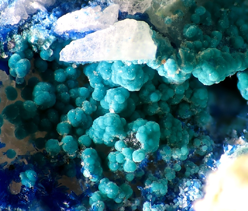 Tlalocite Locality: Bambollita Mine (Oriental Mine), Moctezuma, Mun. de Moctezuma, Sonora, Mexico Picture width 3 mm. Collection and photograph Christian Rewitzer This Photo was Photo of the Day - 6th Oct 2008